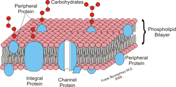 Diagrammatic representation of Cell membrane